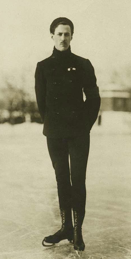 Per Thorén